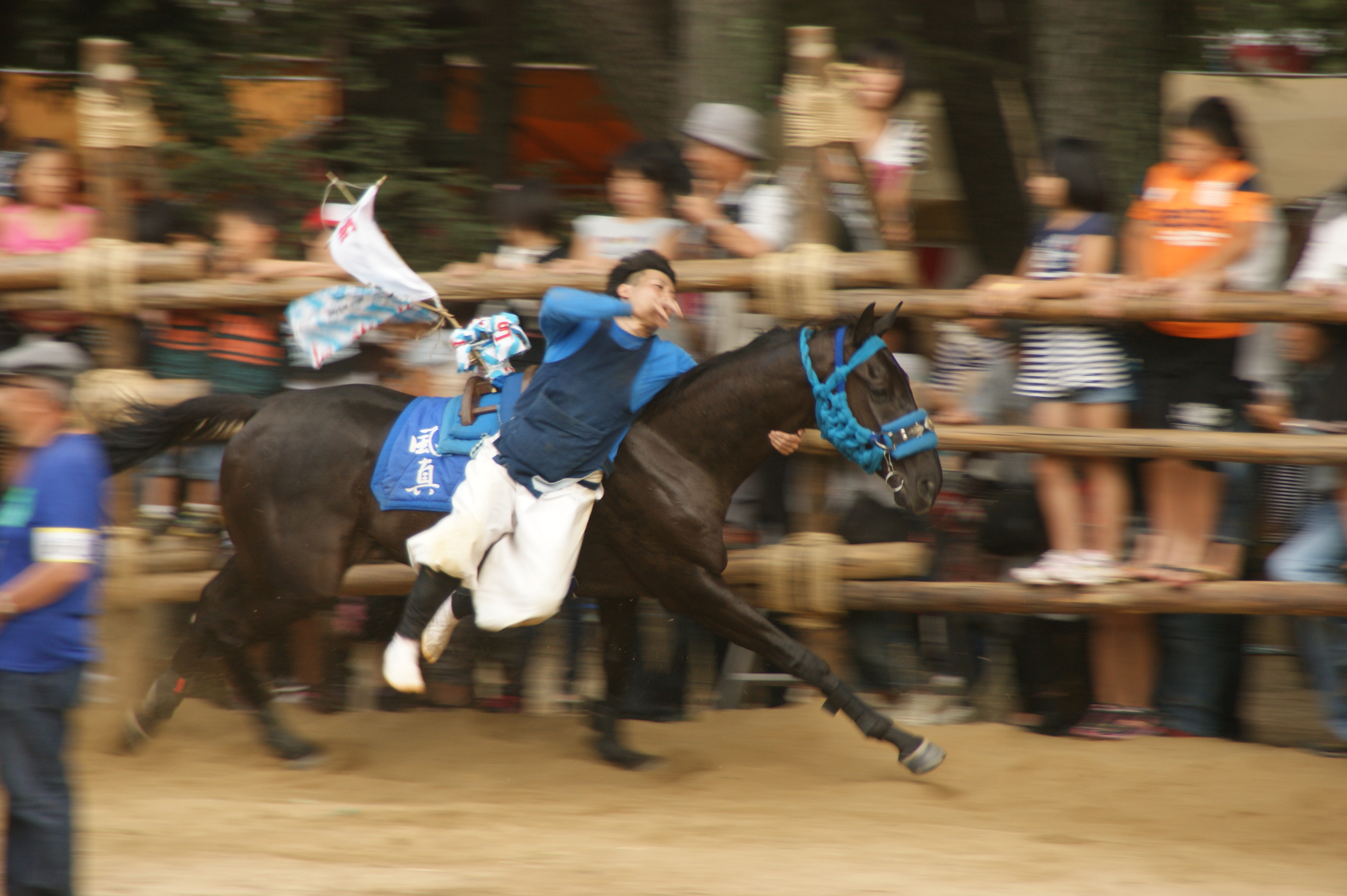 Omanto